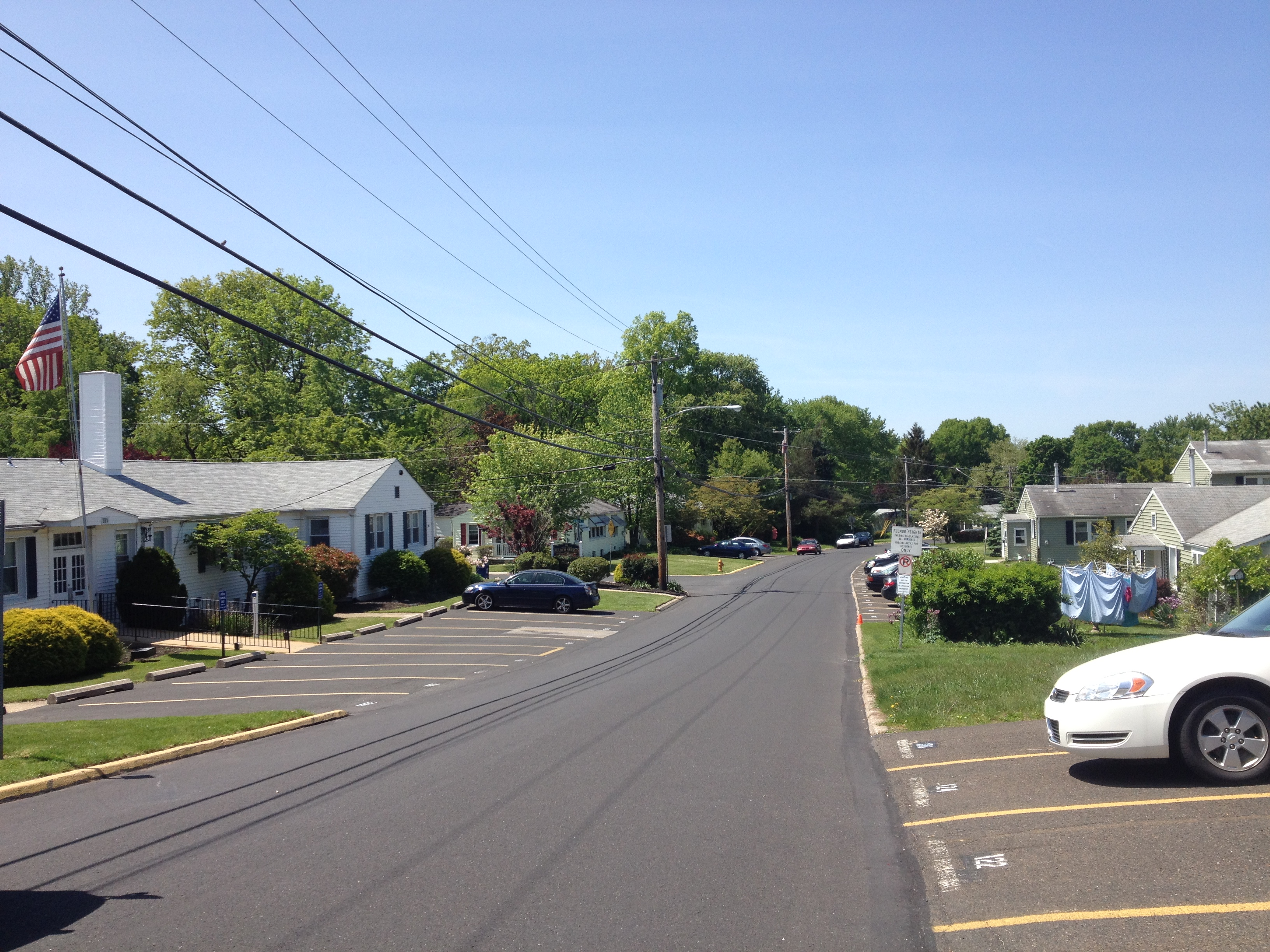 Fitch Road in Fulmor Heights, Pennsylvania looking south